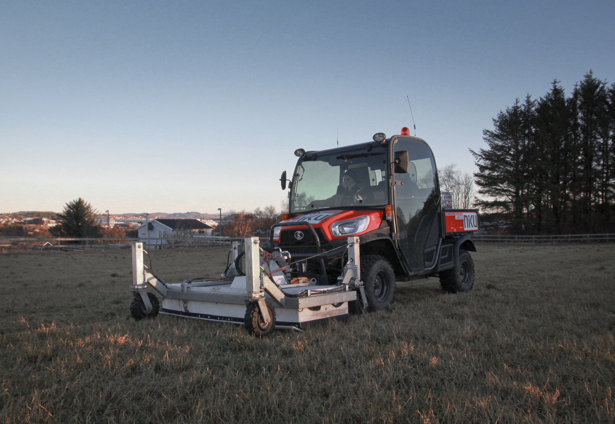 Motorized ground-penetrating radar array in use in Norway